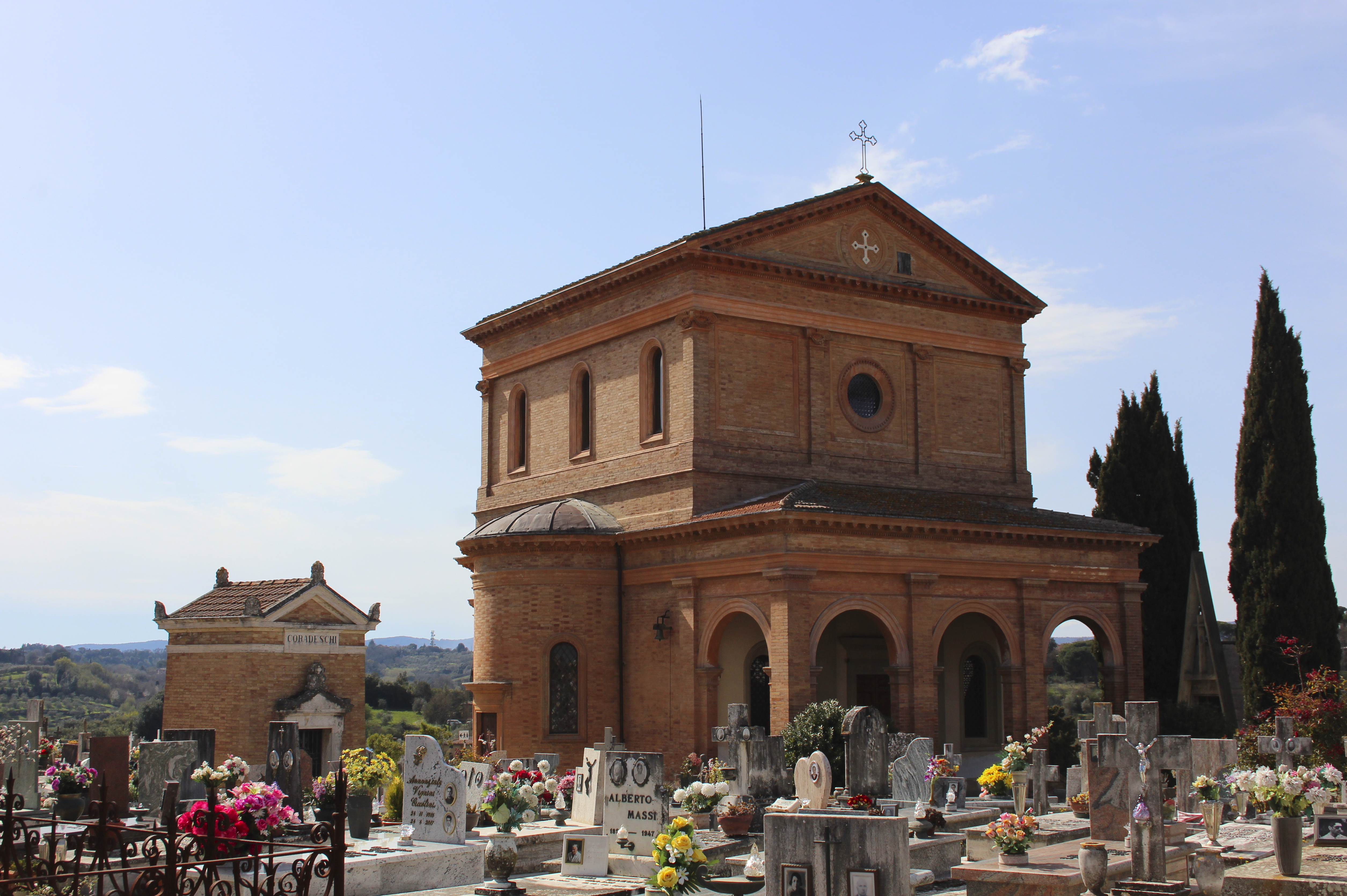 Cemetery Cimitero del Laterino, Siena, Tuscany, Italy